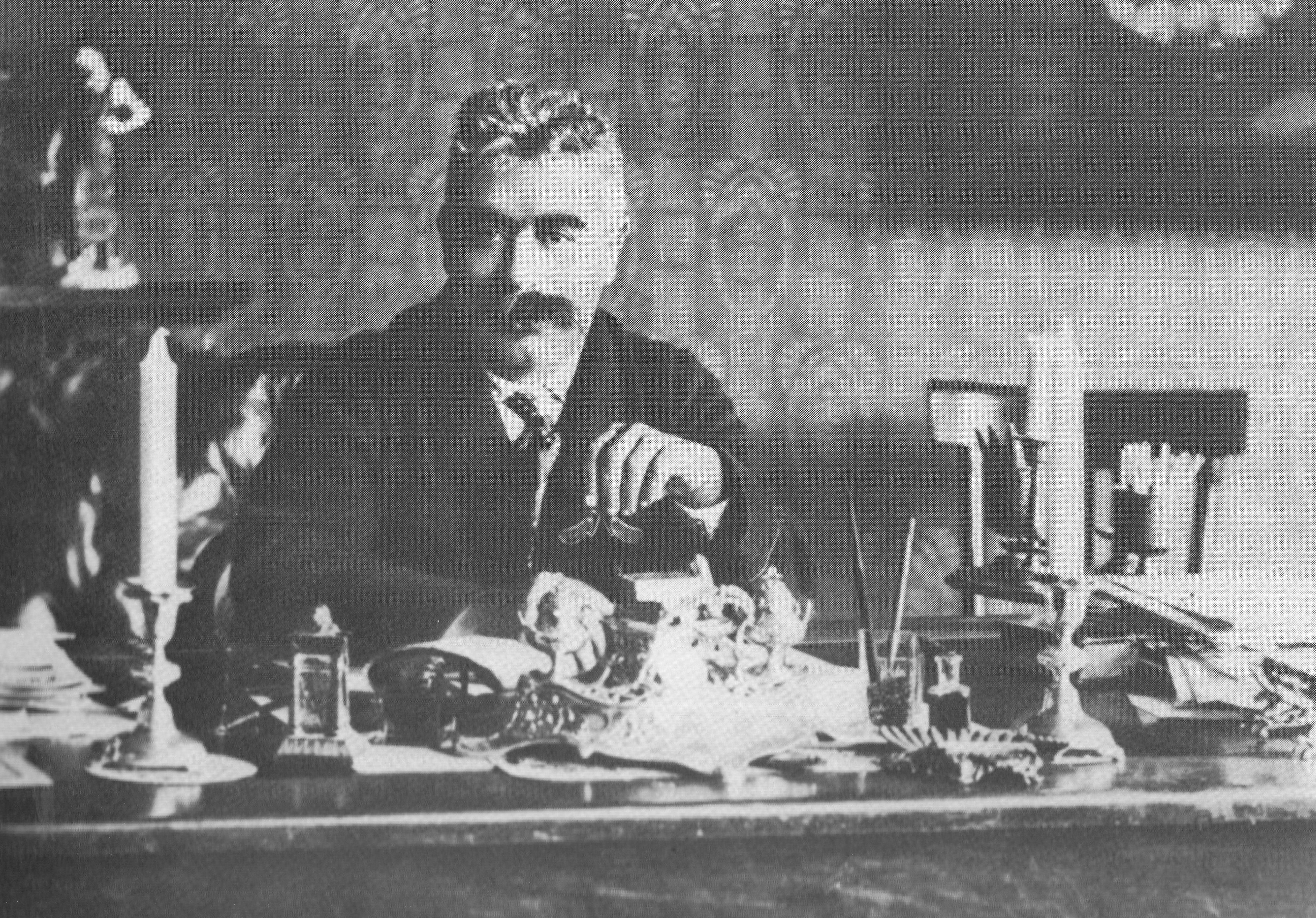 Isaac Leib Peretz